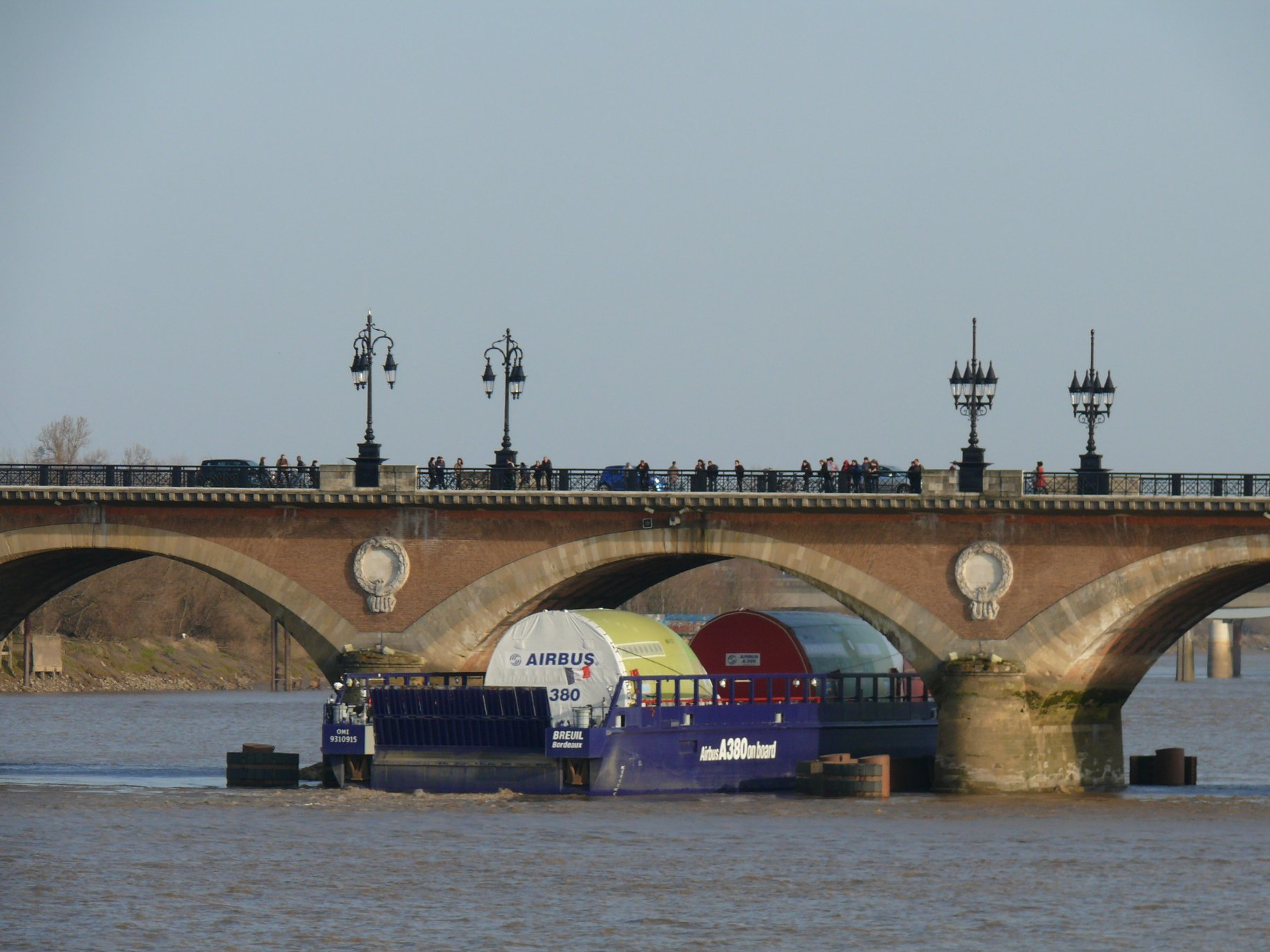 A piece of A380 shipped under a bridge in Bordeaux (Gironde, Aquitaine, France).